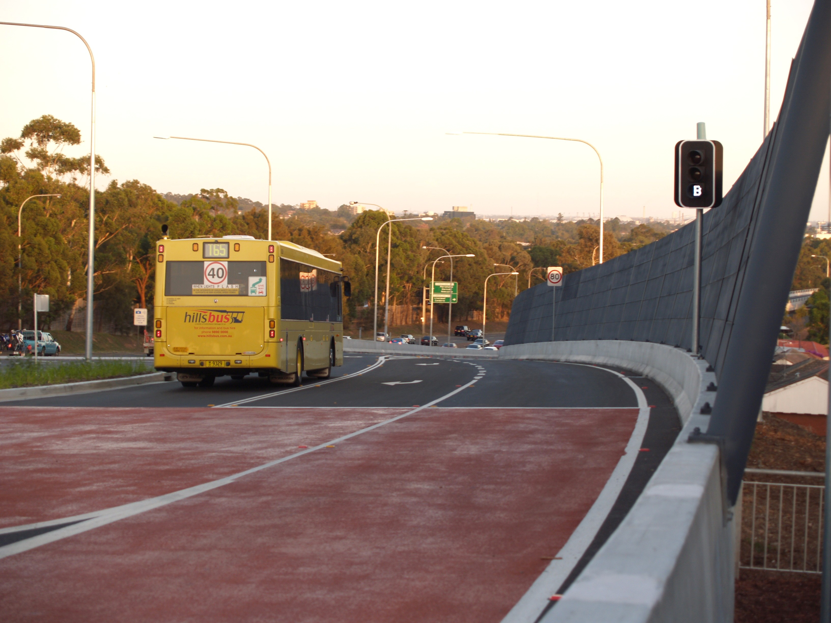 Photo of North-West T-way, Constitution Hill stop showing the T65 route Hillsbus. Volgren CR228L bus with Scania L94UB chassis (MO 9329, built 2006).